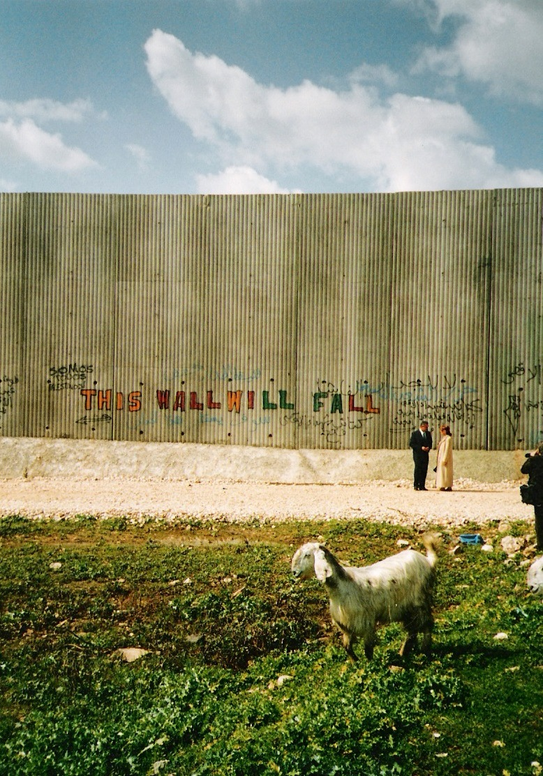 Security wall at Qalqilya, West Bank, February 2004. By Howard Hudson